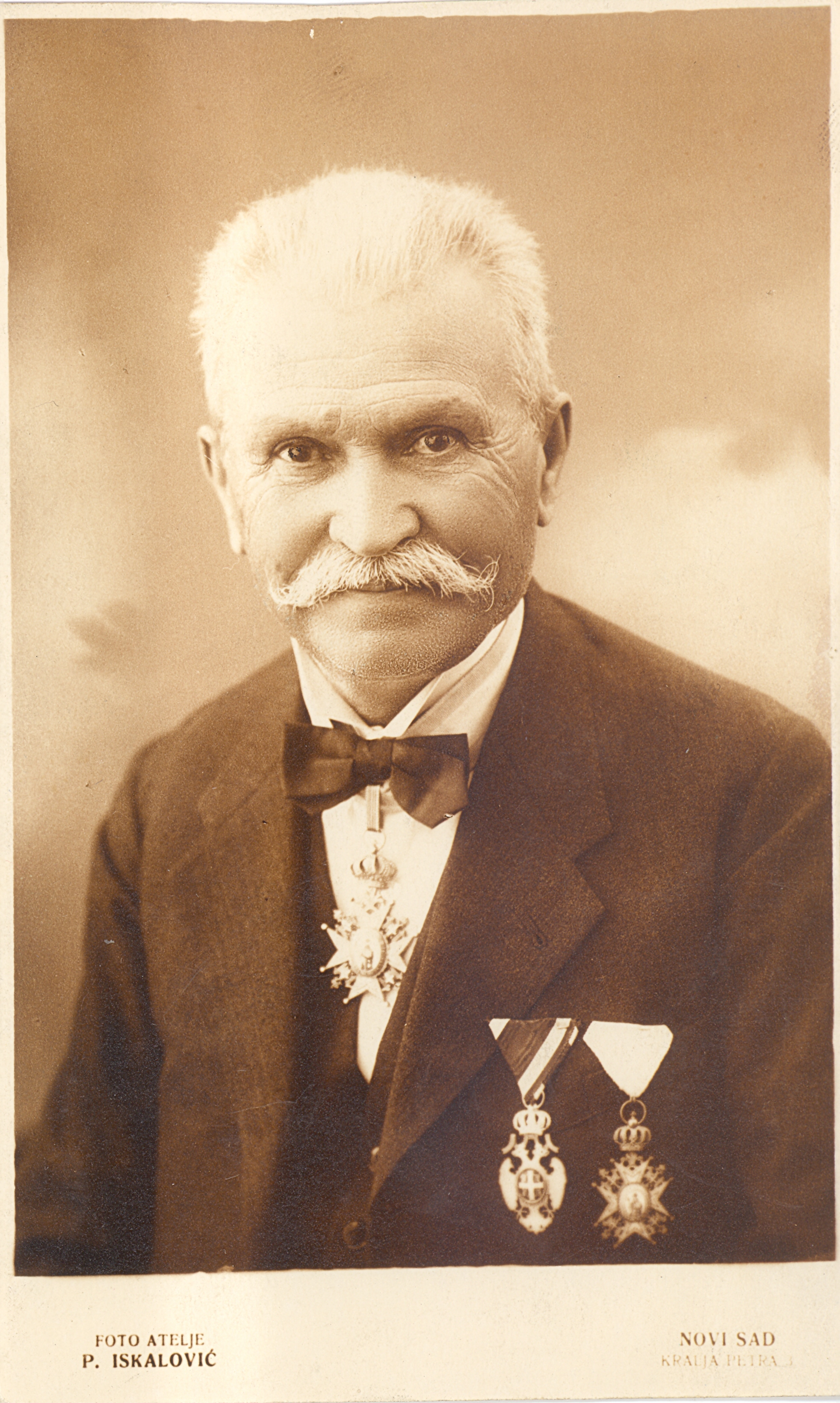 Photograph of Stevan Milovanov (1855-1946), professor of the Serbian Orthodox Gymnasium in Novi Sad, inventory number 772. Srpski (latinica): Fotografija Stevana Milovanova (1855-1946), profesora Srpske pravoslavne velike gimnazije u Novom Sadu, inventarski broj 772.